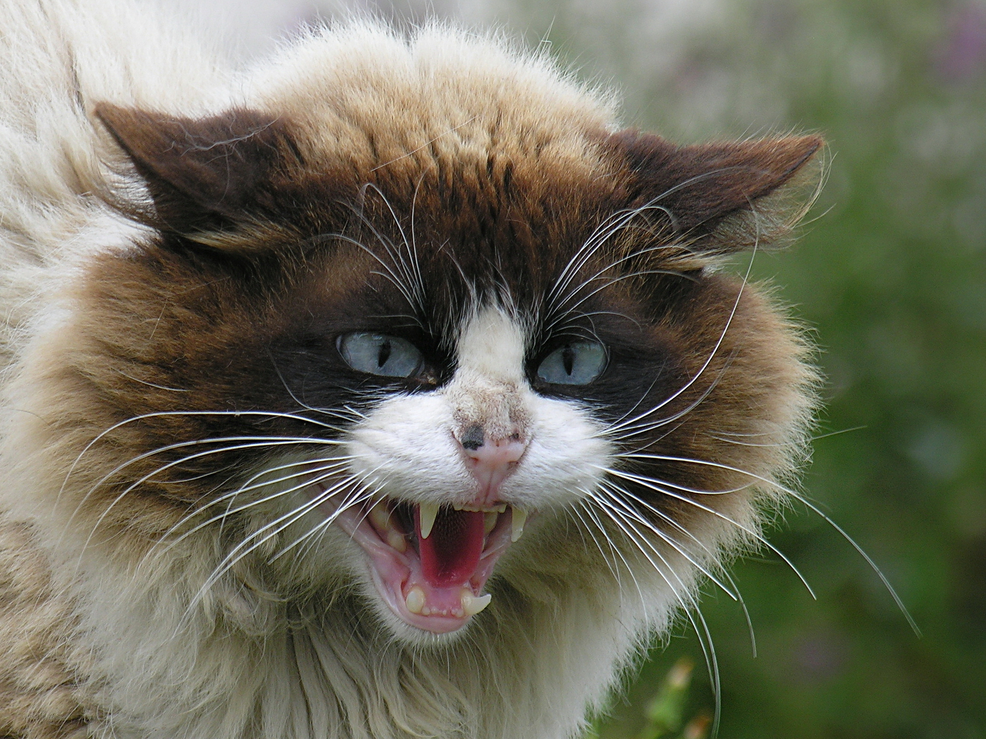 Cat in Barraña, Boiro, Galicia